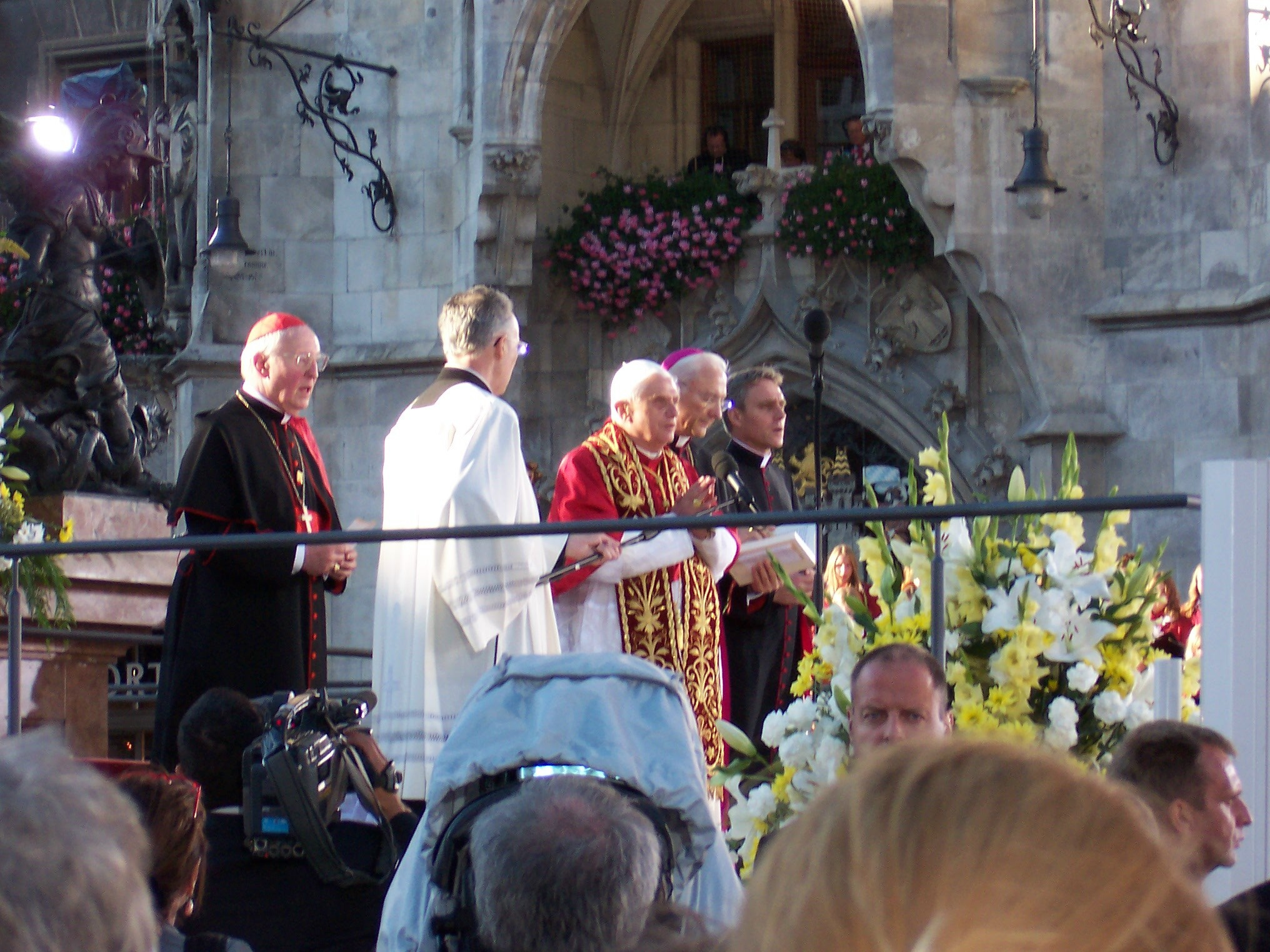 Pope Benedict XVI in Munich, Lord's Prayer at the Marian column.